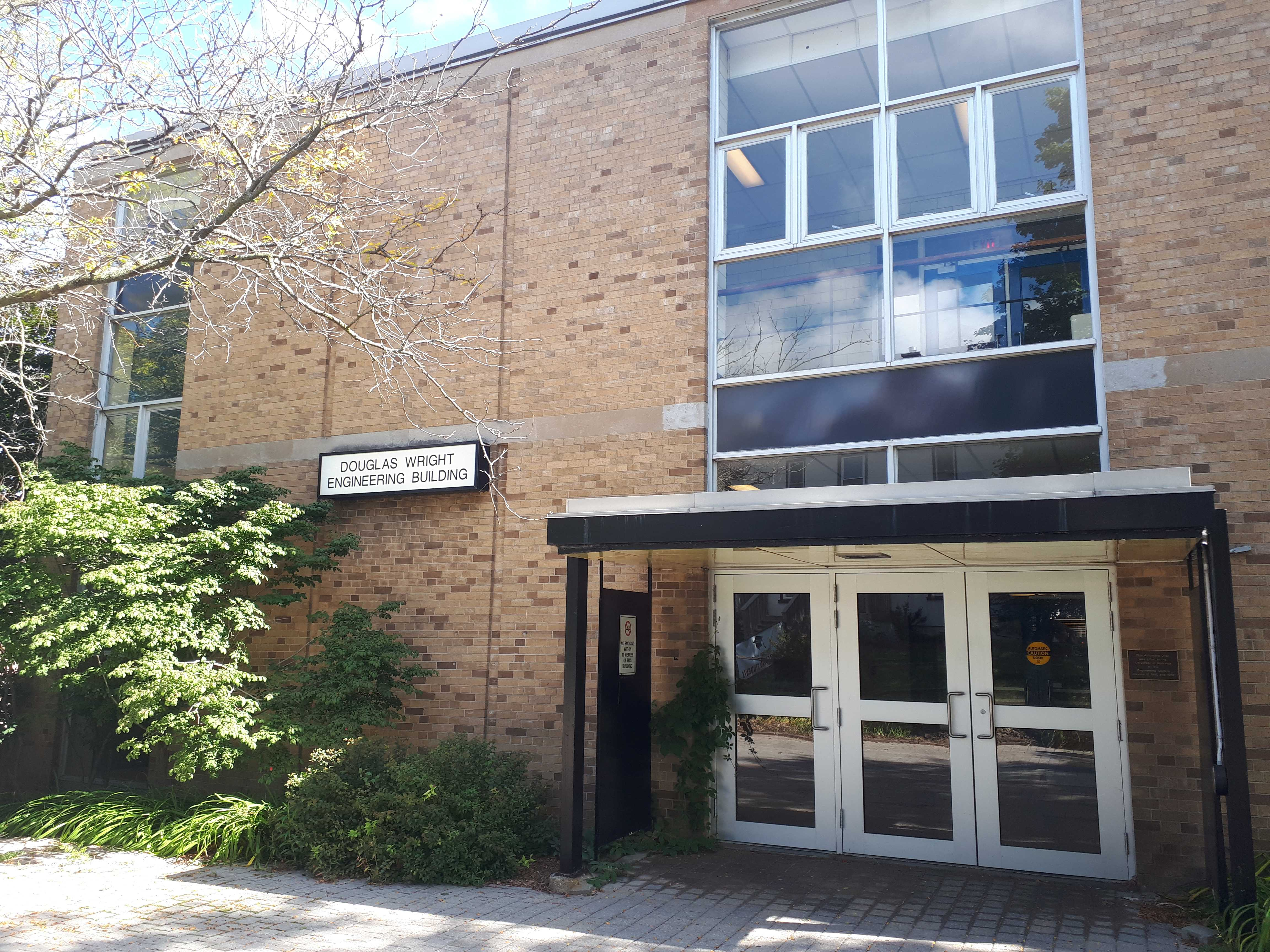 Douglas Wright Engineering Building at the University of Waterloo